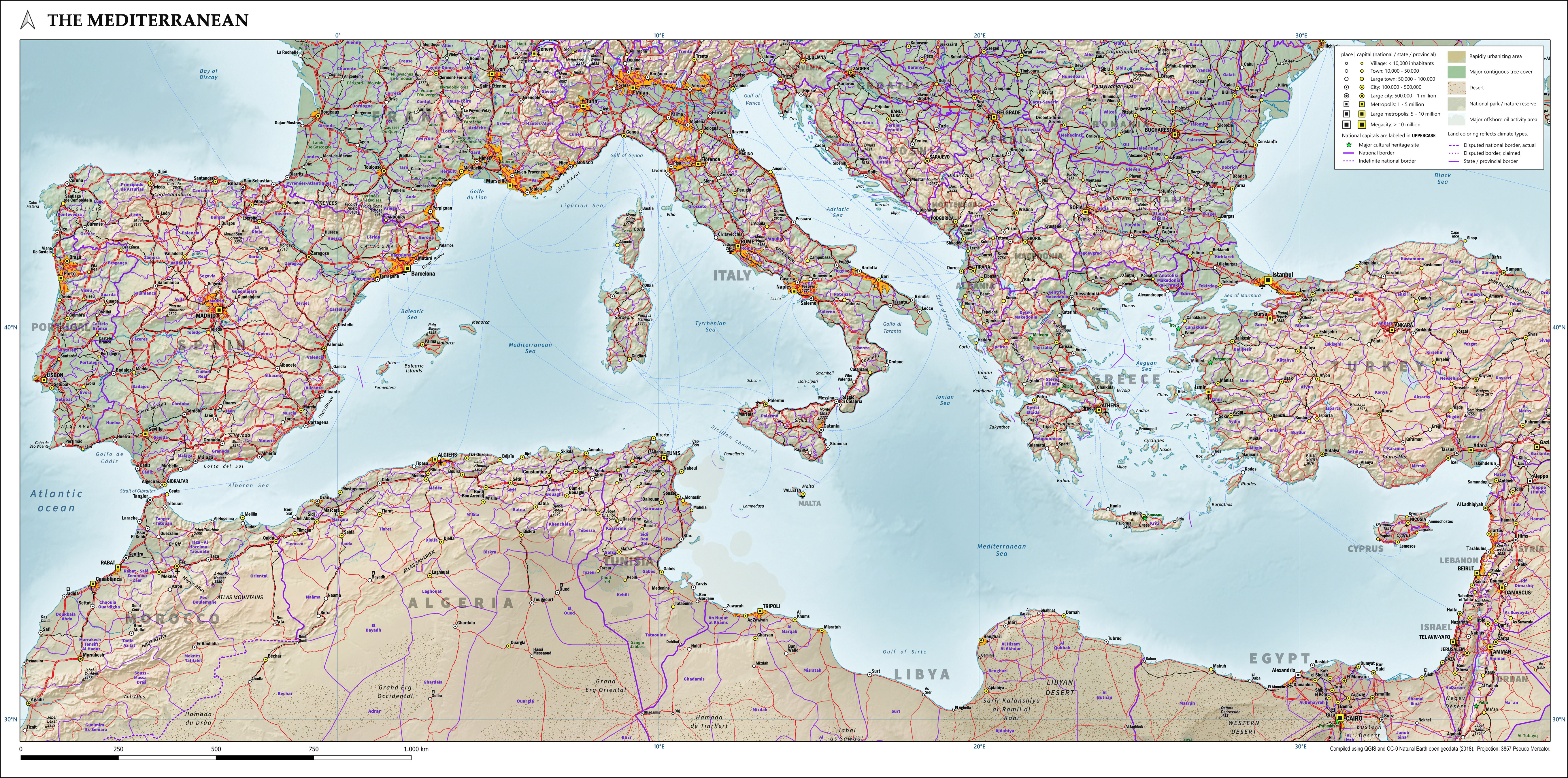 Compiled from Natural Earth open data, this map from 2020 shows land cover, hillshade, populated places, infrastructure and administrative divisions.